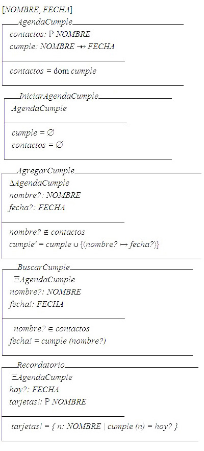 Example of specifications in the Z formal language